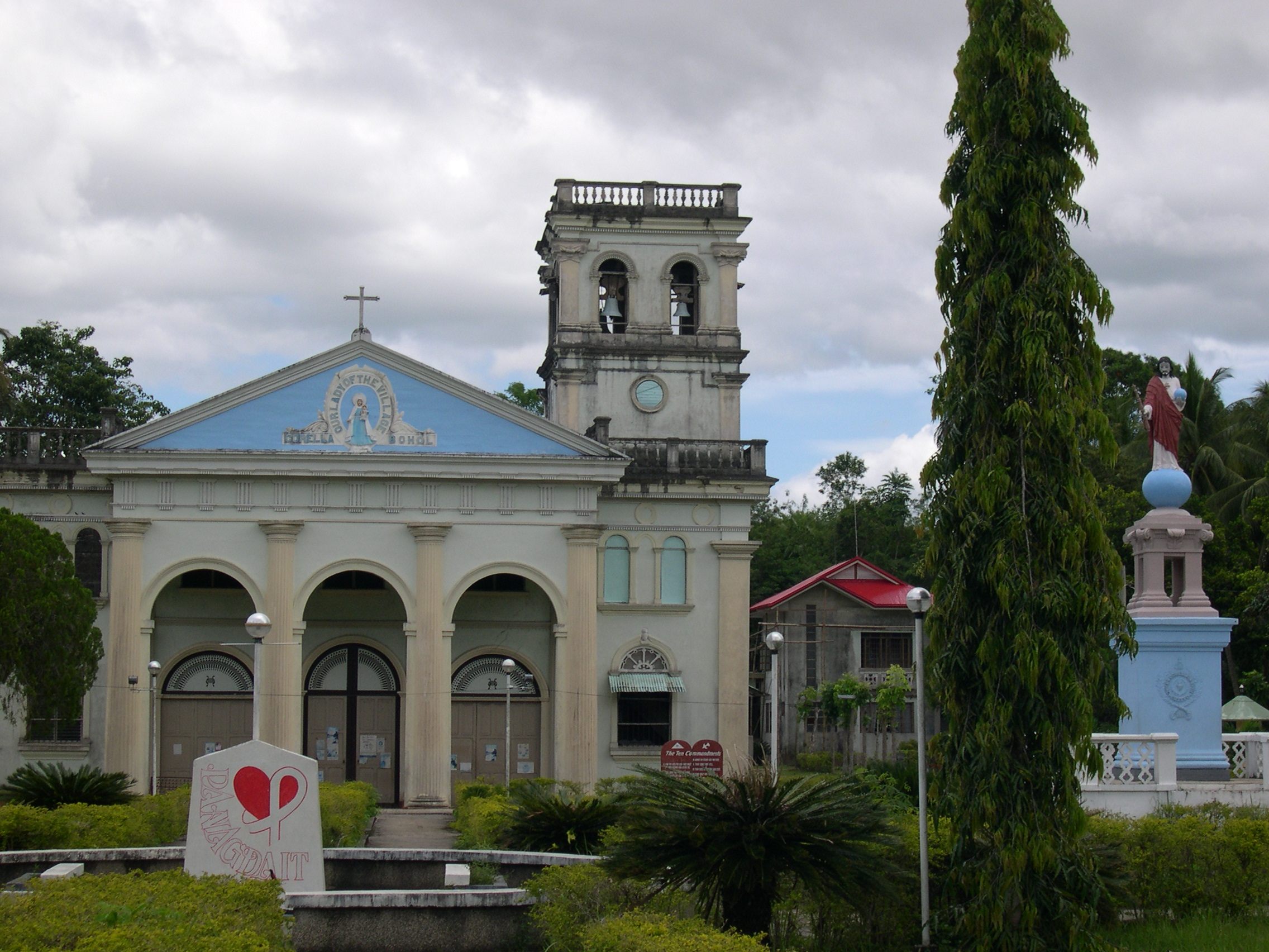 The church of the municipality of Corella in the Philippine province of Bohol Picture taken by Magalhães on the 26th of March 2006